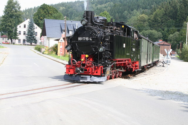 Narrow gauge train at Joehstadt